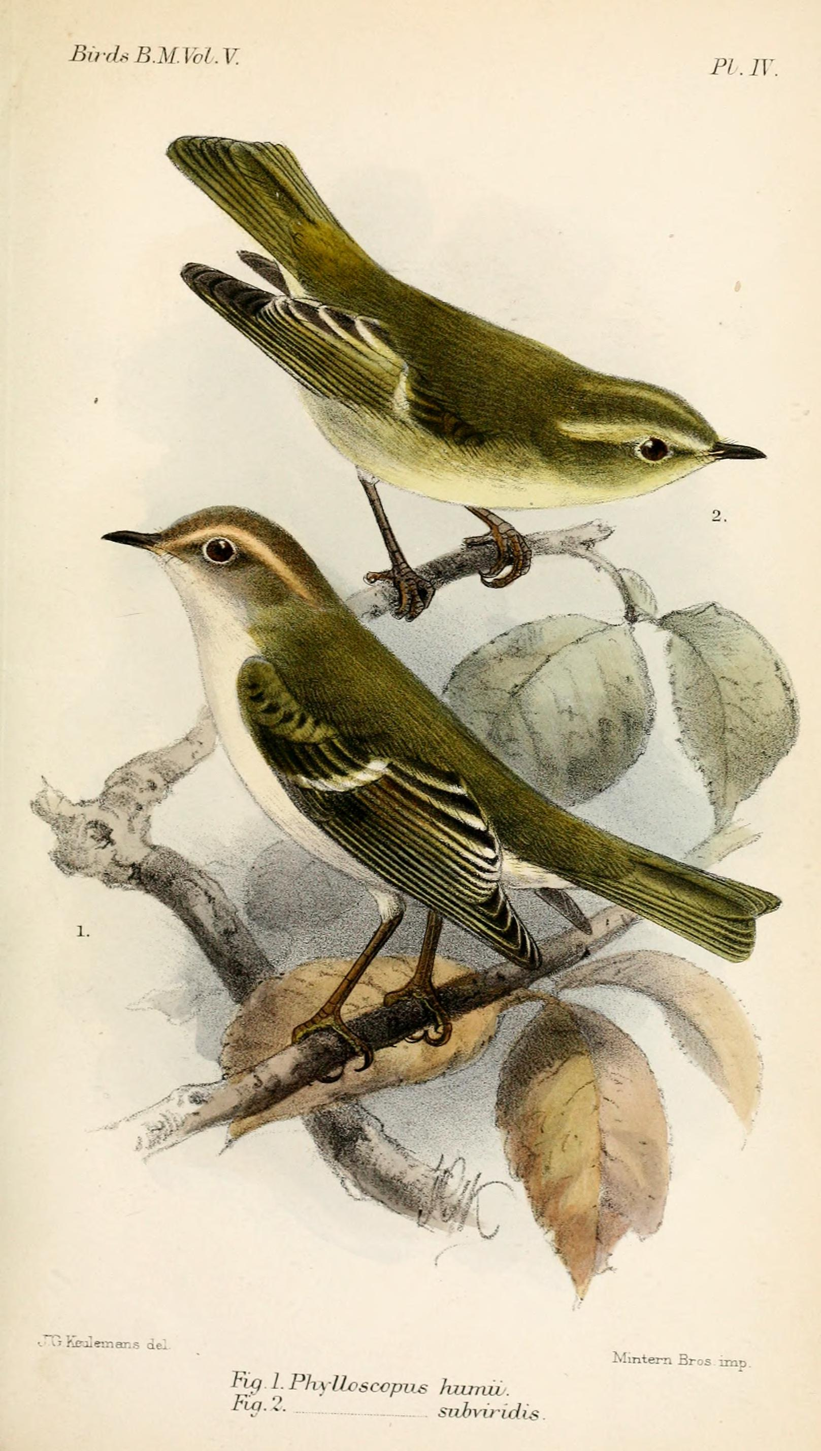 Phylloscopus humii = Phylloscopus humei, Hume's Leaf-warbler (below); and Phylloscopus subviridis, Brooks's Leaf-warbler (above)